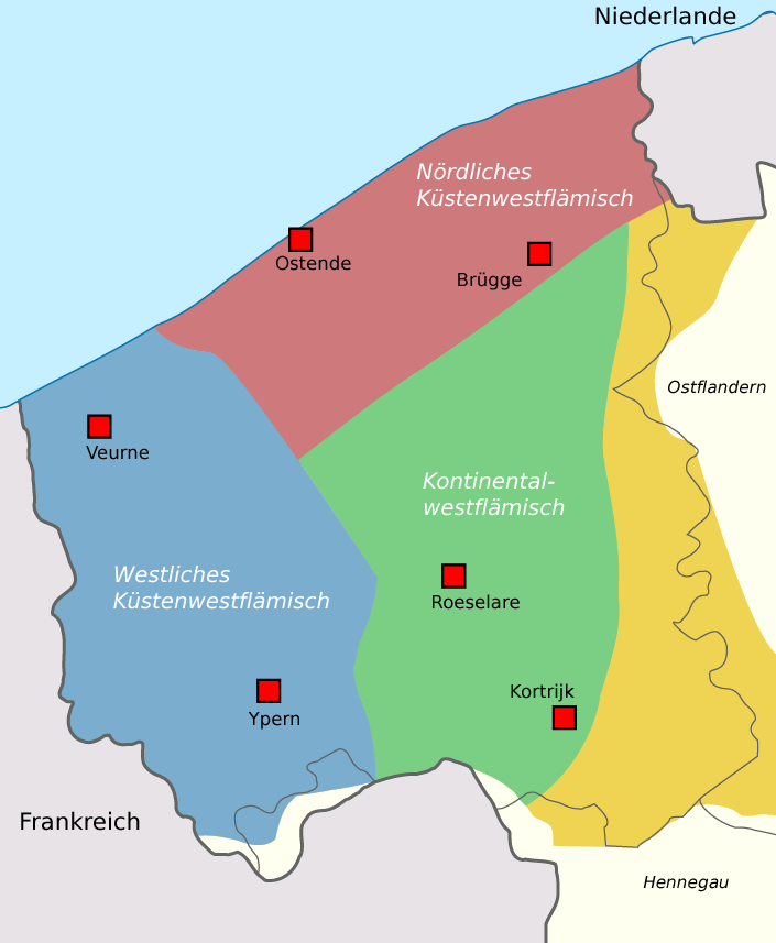 Maps of the West-Flemish dialects spoken in Belgium. Other West-Flemish dialects are spoken in France (French Flemish is a dialect of West-Flemish) and some parts of Zeeland (The Netherlands), more specifically around the city of Sluis.